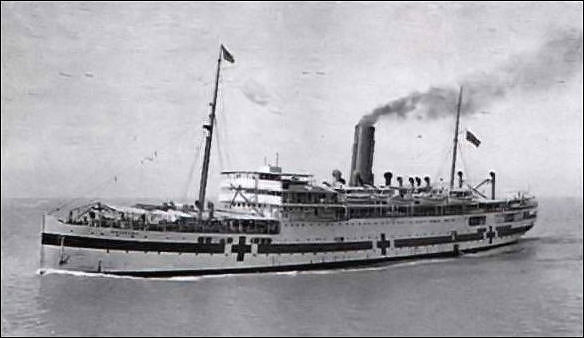 "Erinpura" in Hospital Ship Livery